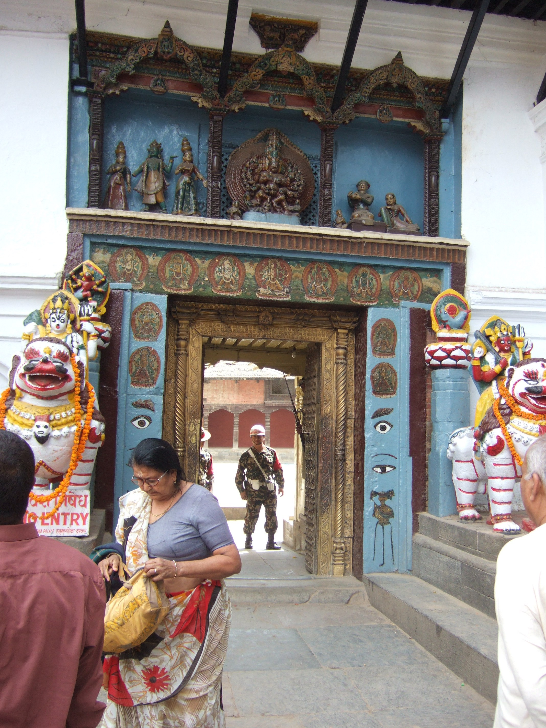 Hunuman Dhoka (Hanuman Gate) leading to the courtyard of the old Royal Palace in Kathmandu, Nepal.